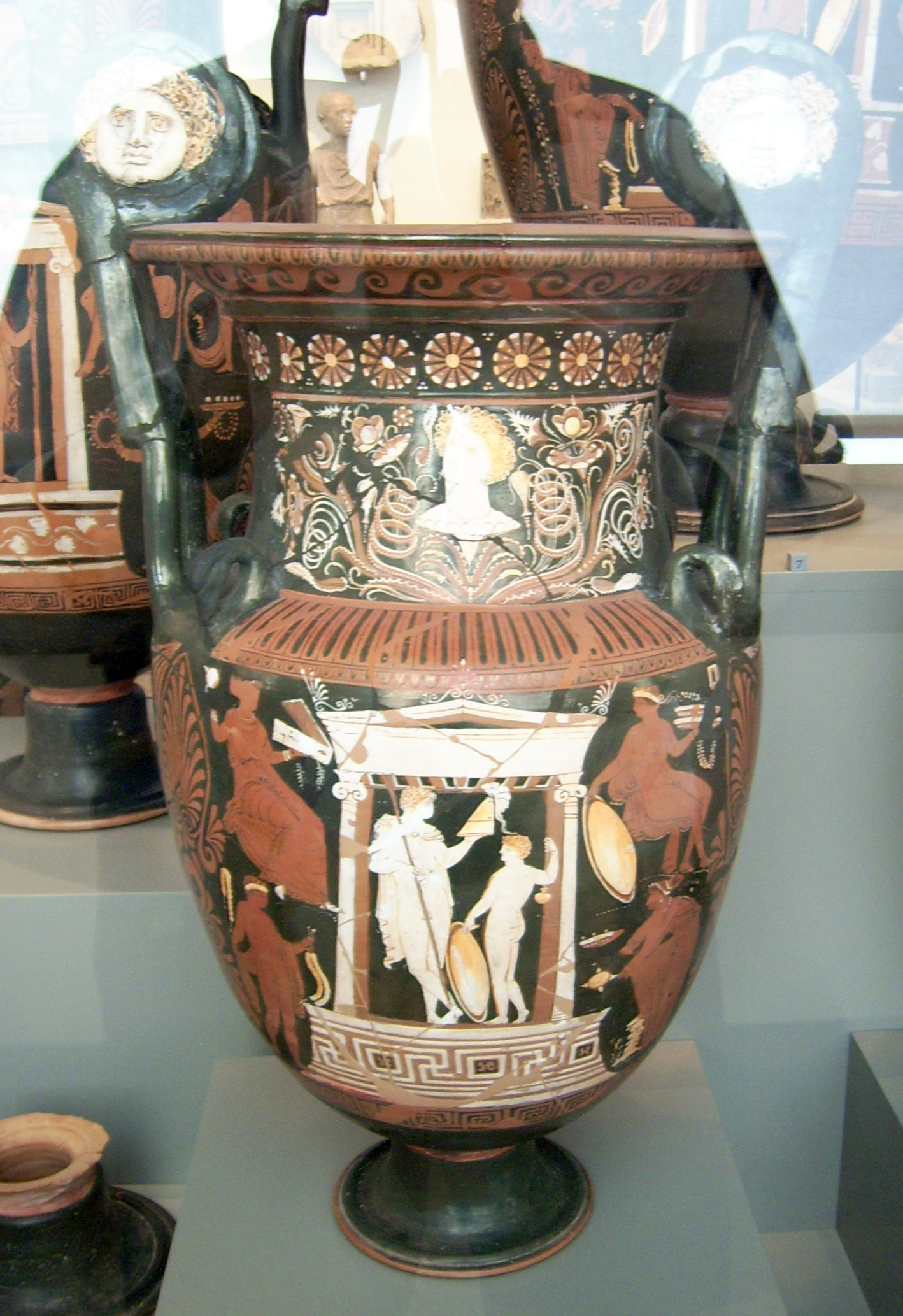 Naskos. Side A of an Apulian red-figure volute-krater, ca. 340 BC.